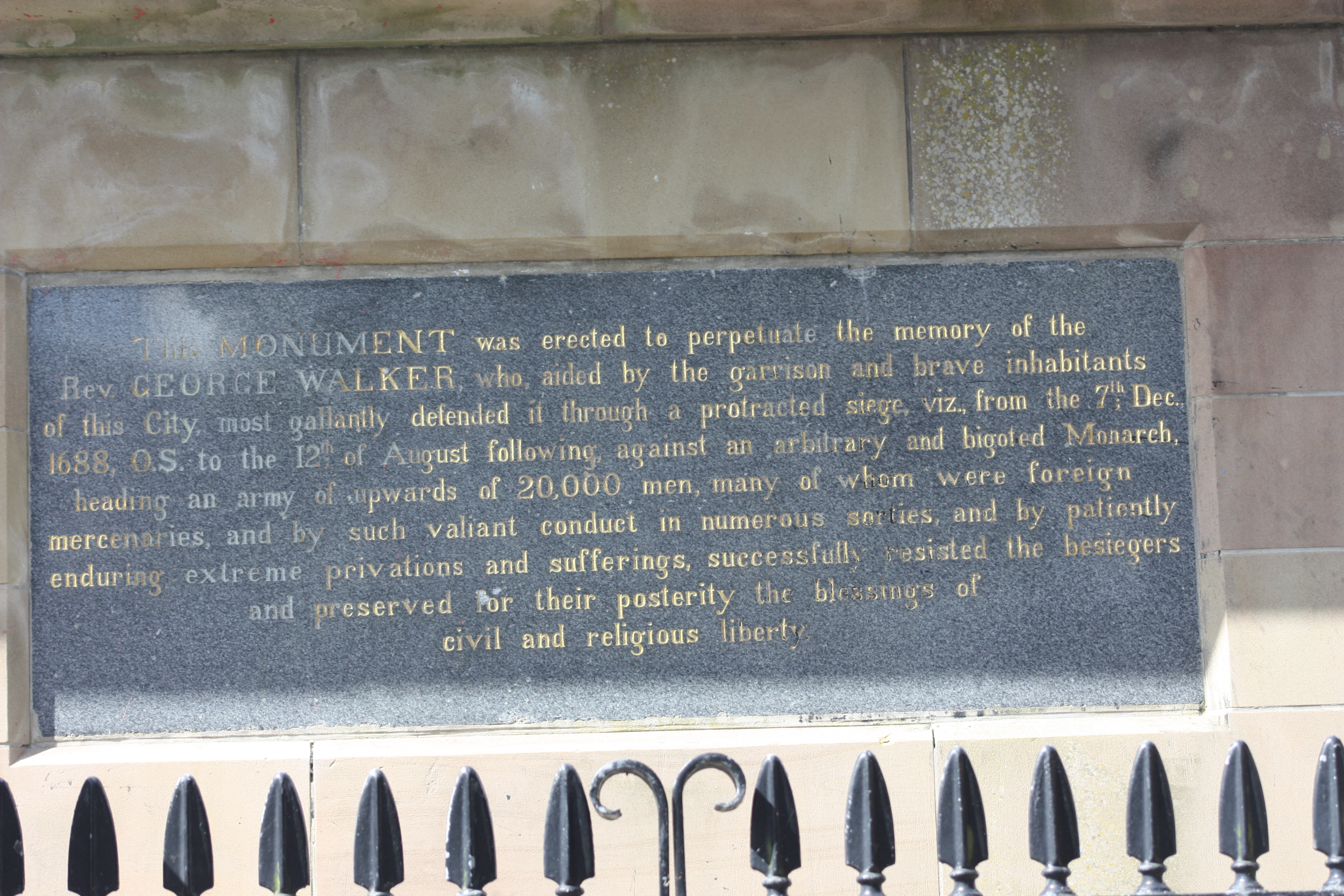 Inscription on the Walker Plinth, Walls of Derry, Derry, County Londonderry, Northern Ireland, August 2009